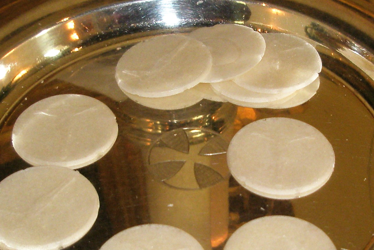 Sacramental bread